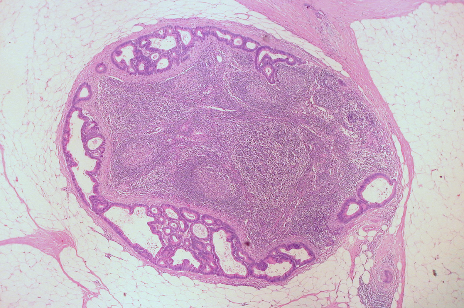 Paracolonic Lymph Node with Metastatic Adenocarcinoma Pathological and histological images courtesy of Ed Uthman at flickr.